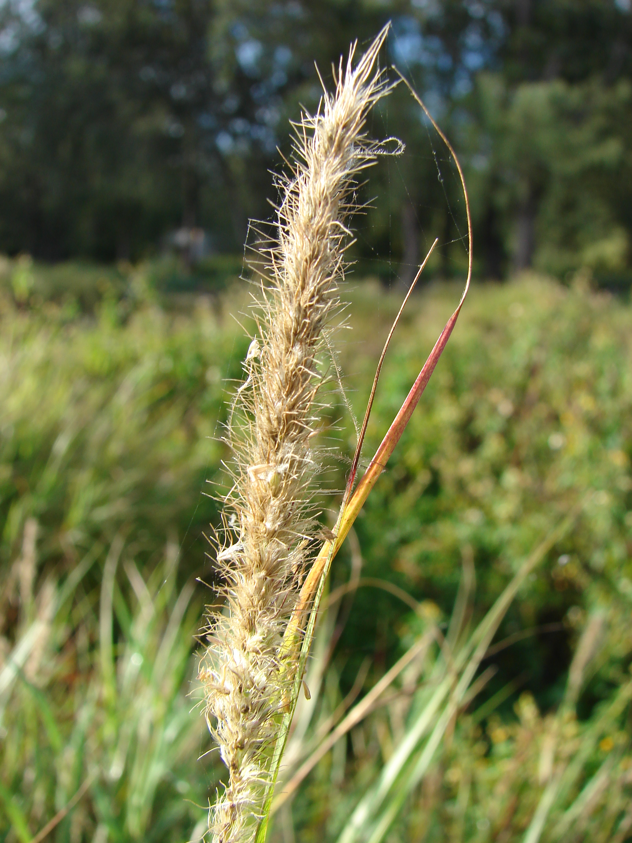 Cenchrus ciliaris (seedhead). Location: Midway Atoll, Cargo pier Sand Island